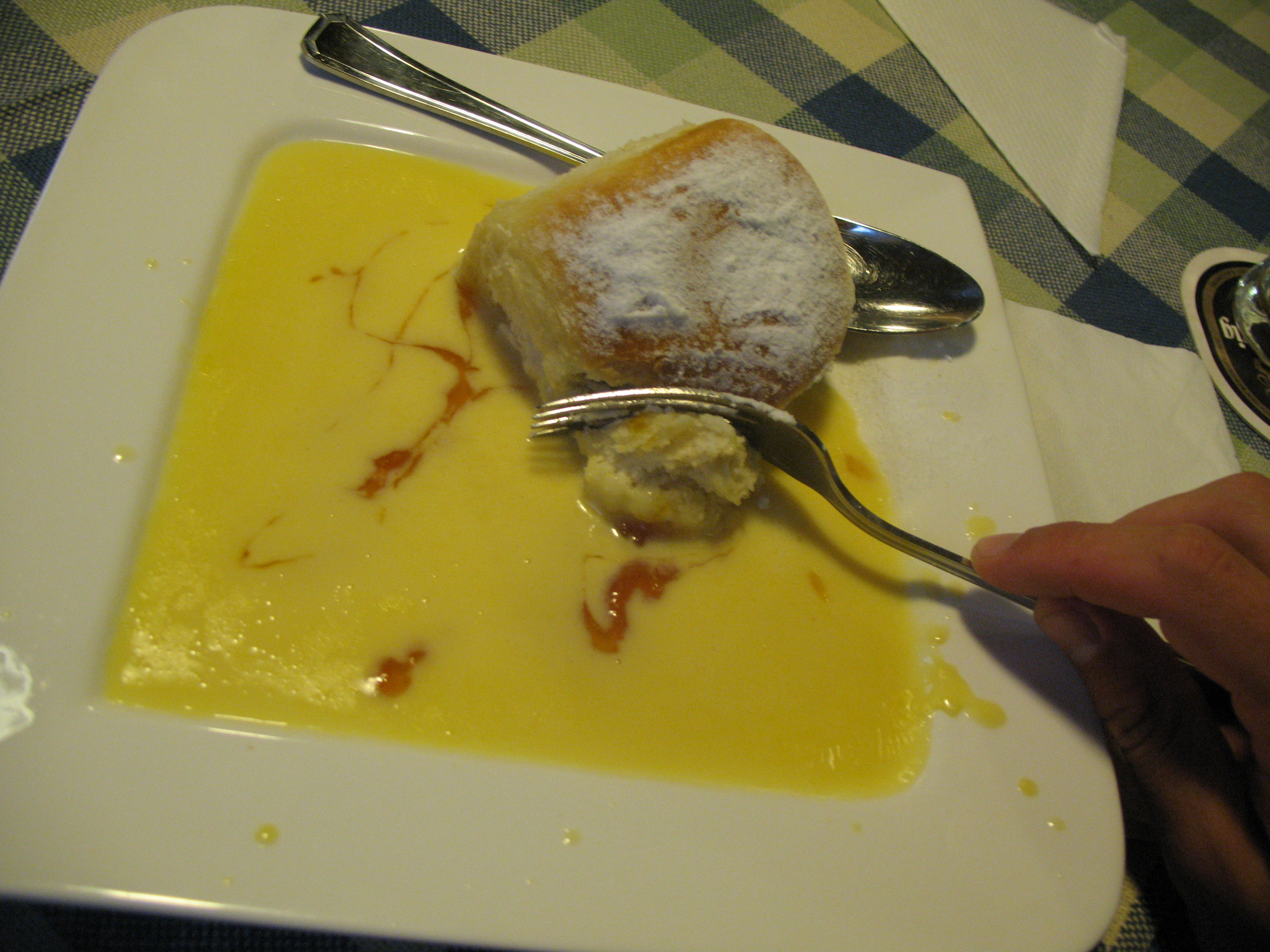 Apple Strudel with Vanilla Sauce, Obertraun, Austria